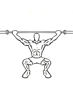 an exercise of thigh